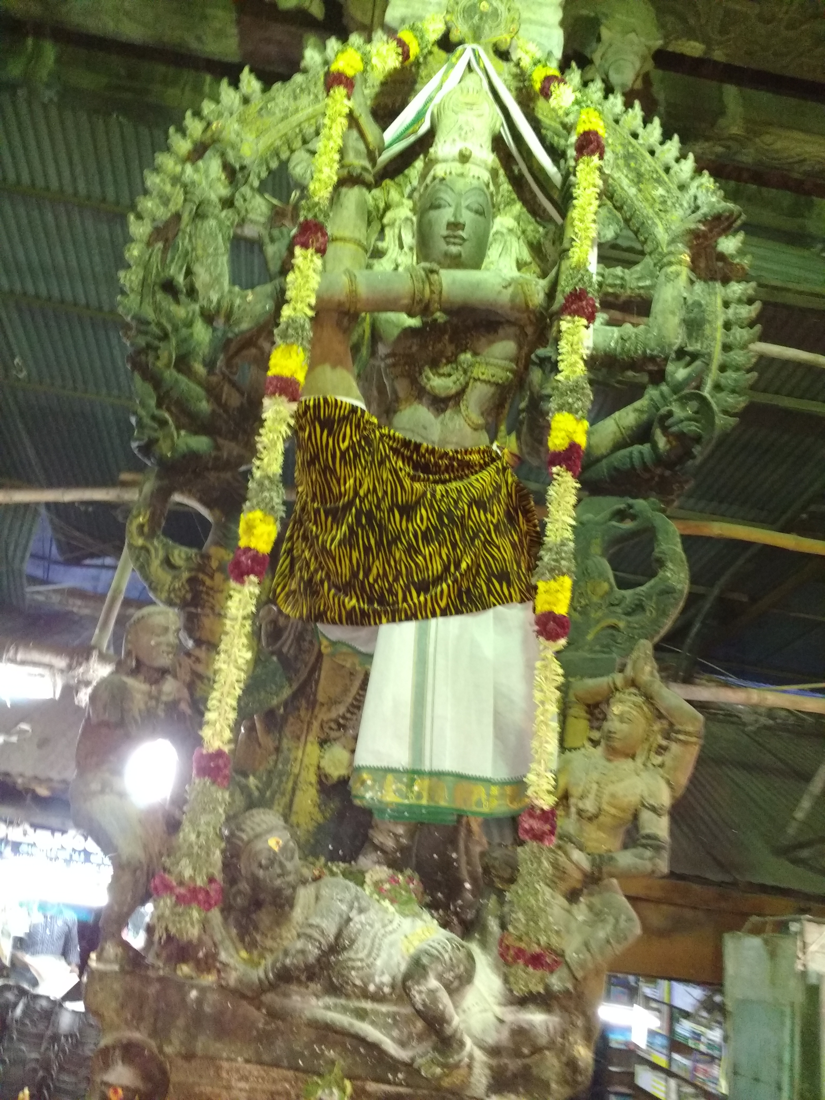 Lord Natraj, Pudumandapam, Madurai